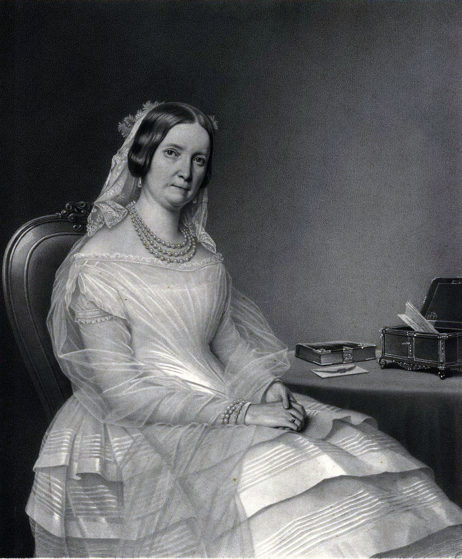 Comtesse Julie de Stroganoff